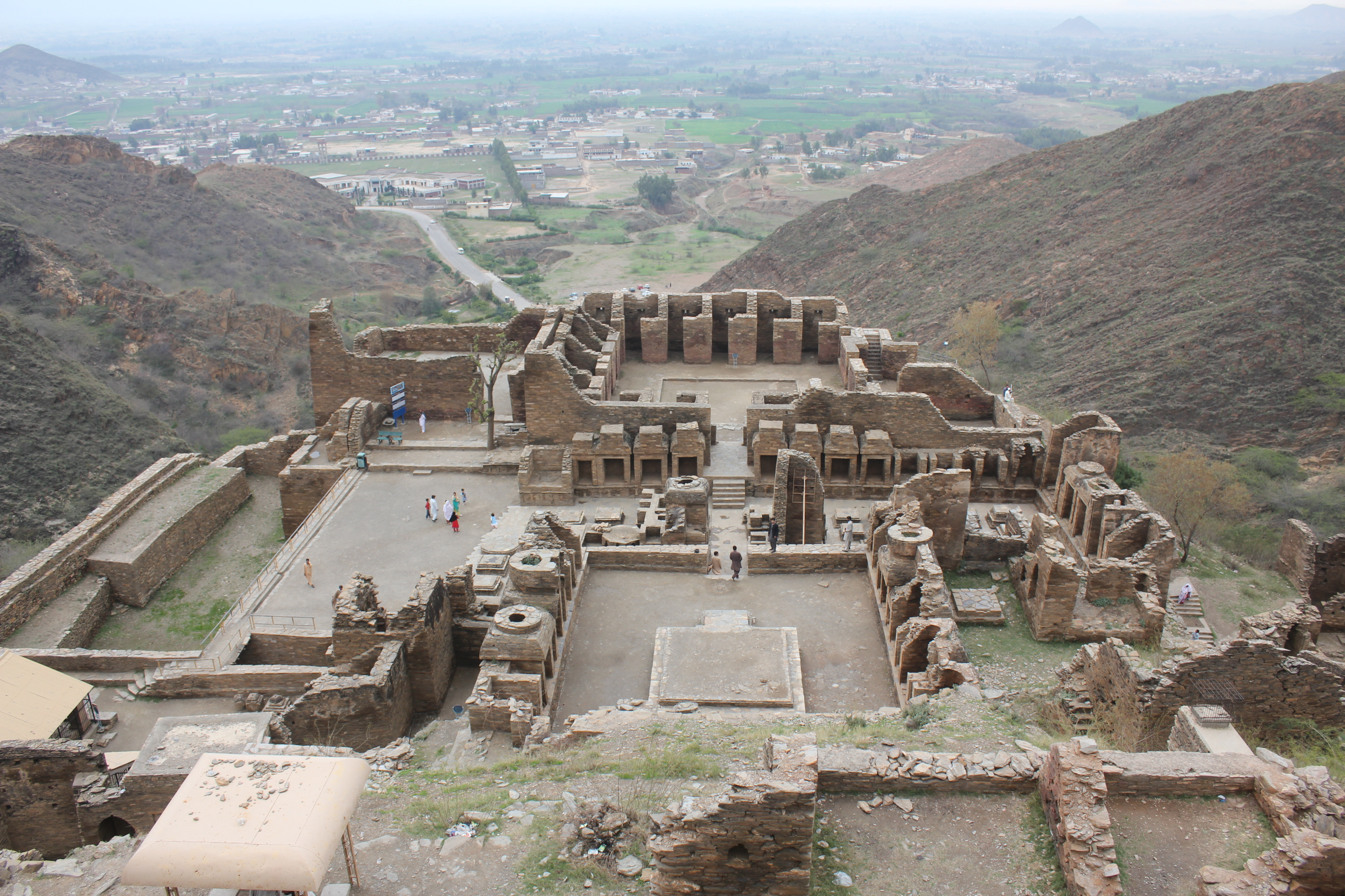 Takht-i-Bahi Buddhist ruins This is a photo of a monument in Pakistan identified as the KPK-34